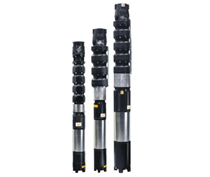 These are widely used in sprinkler and drip water irrigation system, farm houses, nurseries and gardening.